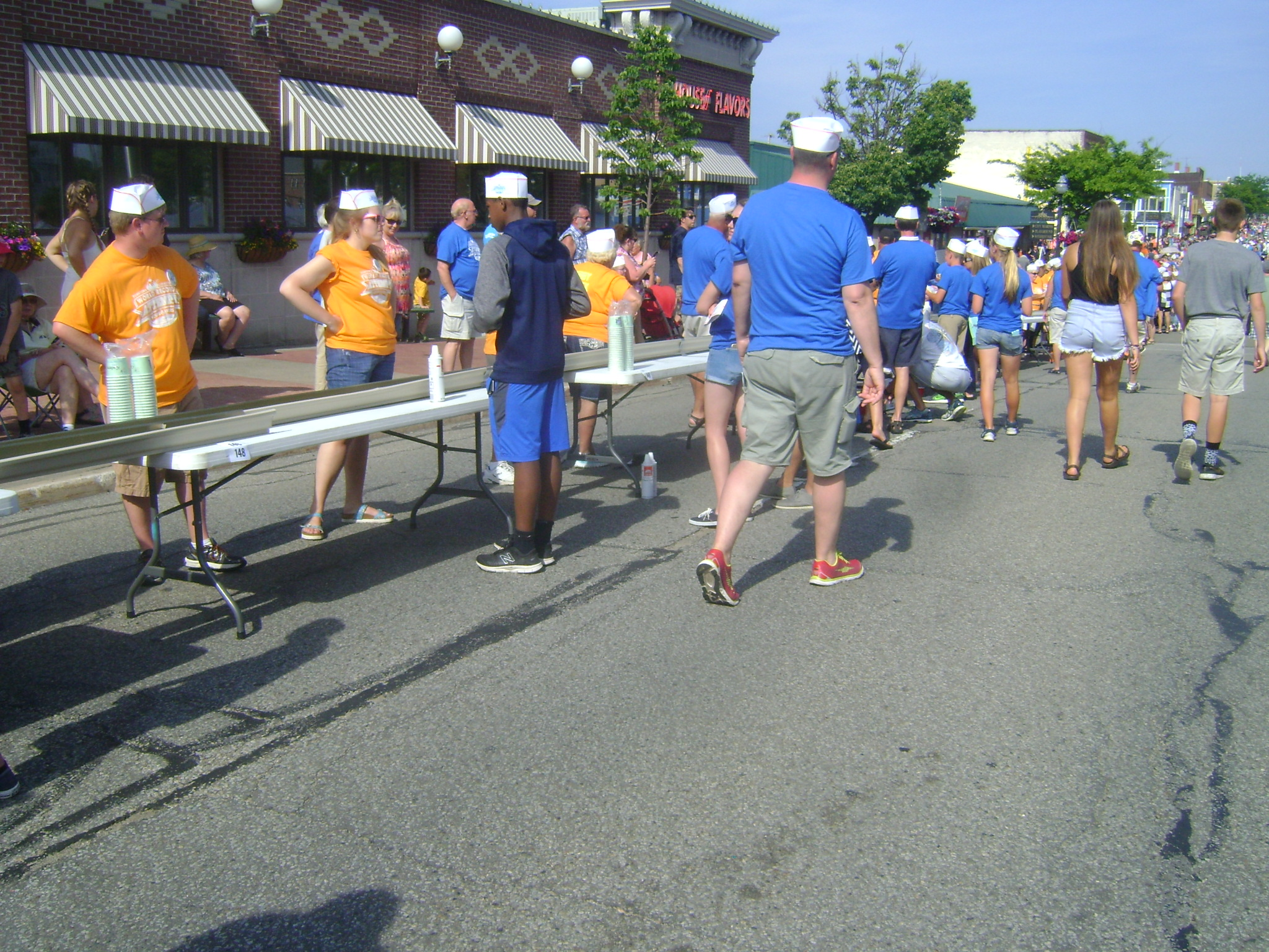 House of Flavors Guinness World record attempt event preparation for world's longest dessert